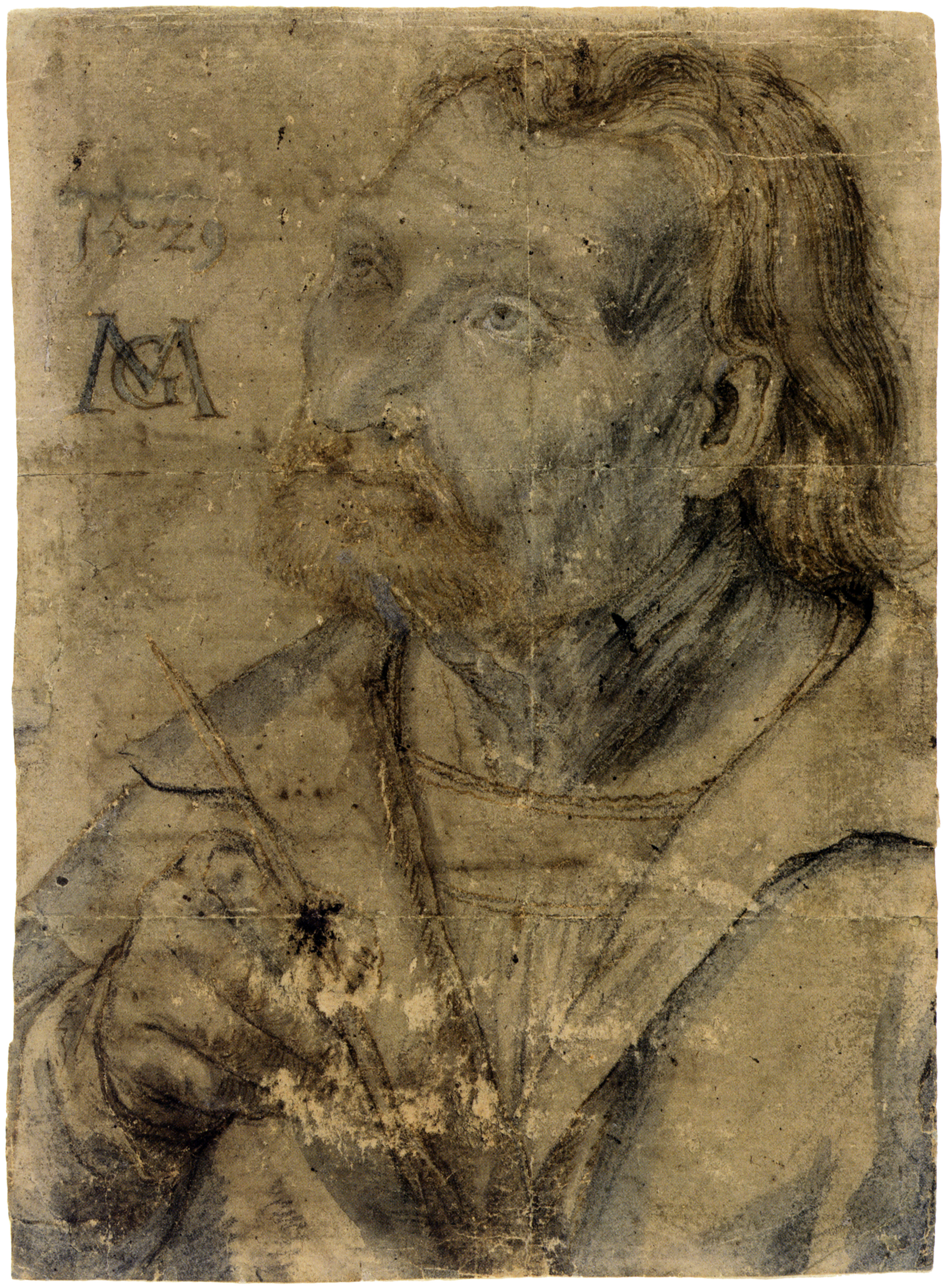 In the past often regarded as a self-portrait of Grünewald, but according to the most recent research rather a study of the writing John the Evangelist on Patmos